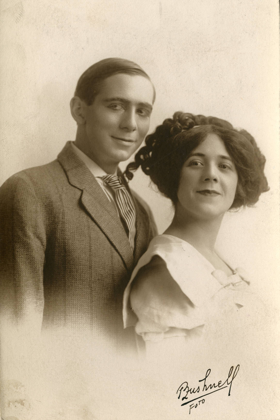 Margaret Marriott and Ray Collins, a vaudeville team who performed at the Alhambra Theater, Seattle, in Dec. 1912. Subjects: vaudeville